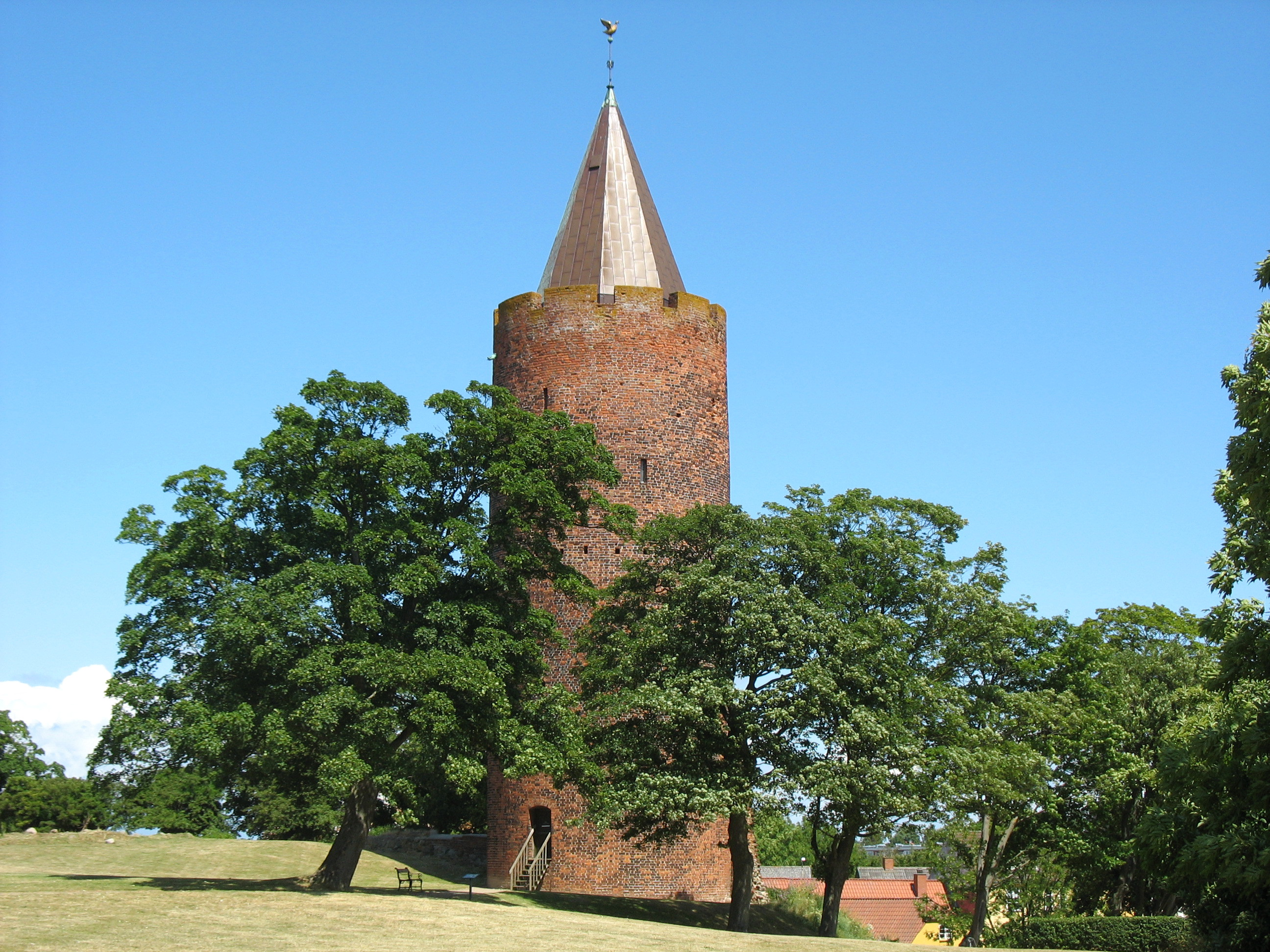 The old fortress tower "Gåsetårnet" in the town "Vordingborg", located i South Zeland, east Denmark.